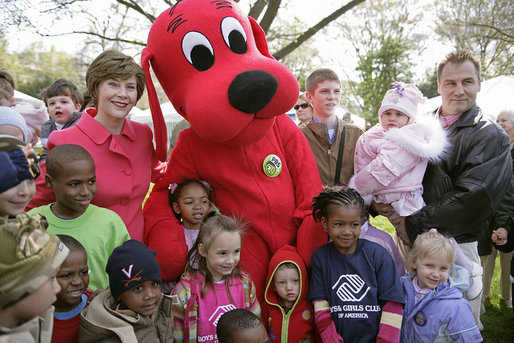 Mrs. Laura Bush poses with children and Clifford the Big Red Dog on the South Lawn during the 2007 White House Easter Egg Roll Monday, April 9, 2007. There were many children's characters in attendance including Charlie Brown, Bugs Bunny, Arthur, and Curious George.